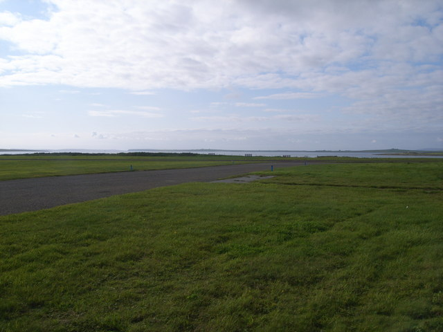 Westray Airfield runway A very bright day indeed.